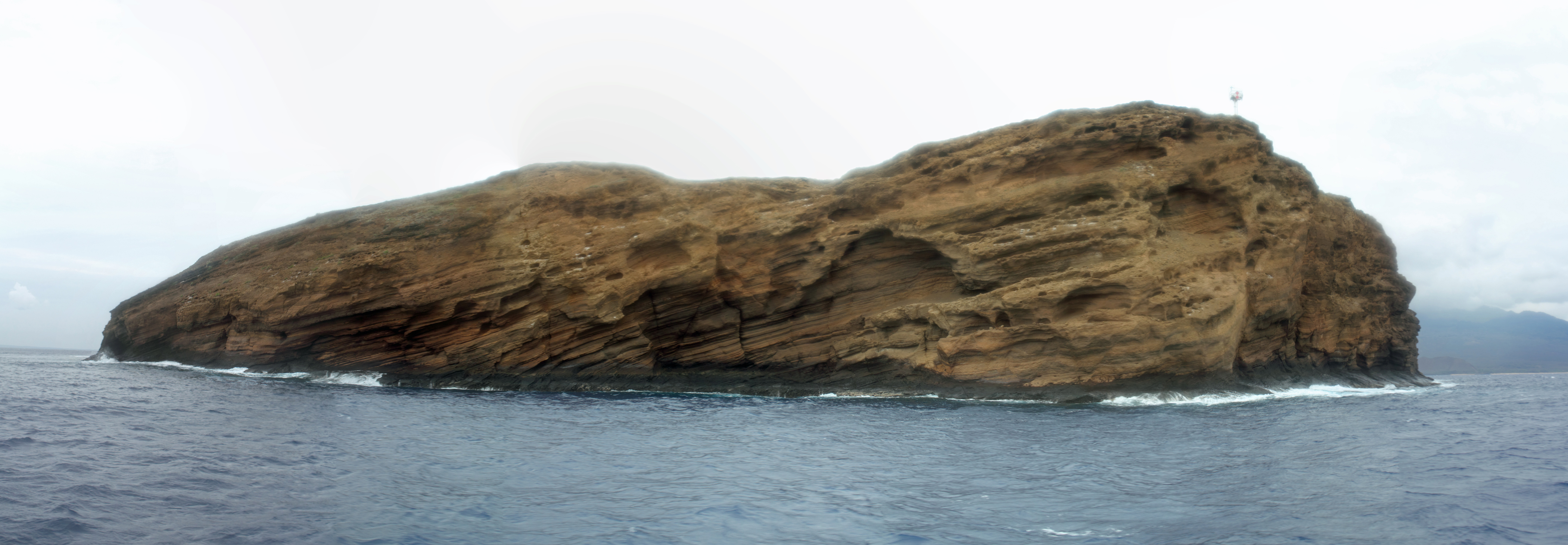 Molokini is designated as a Marine Life Conservation District and State Seabird Sanctuary and is a premier snorkel and dive location. During and after World War II, the military used Molokini for target practice. Impact craters from these bombardments are visible on the south side (back side).